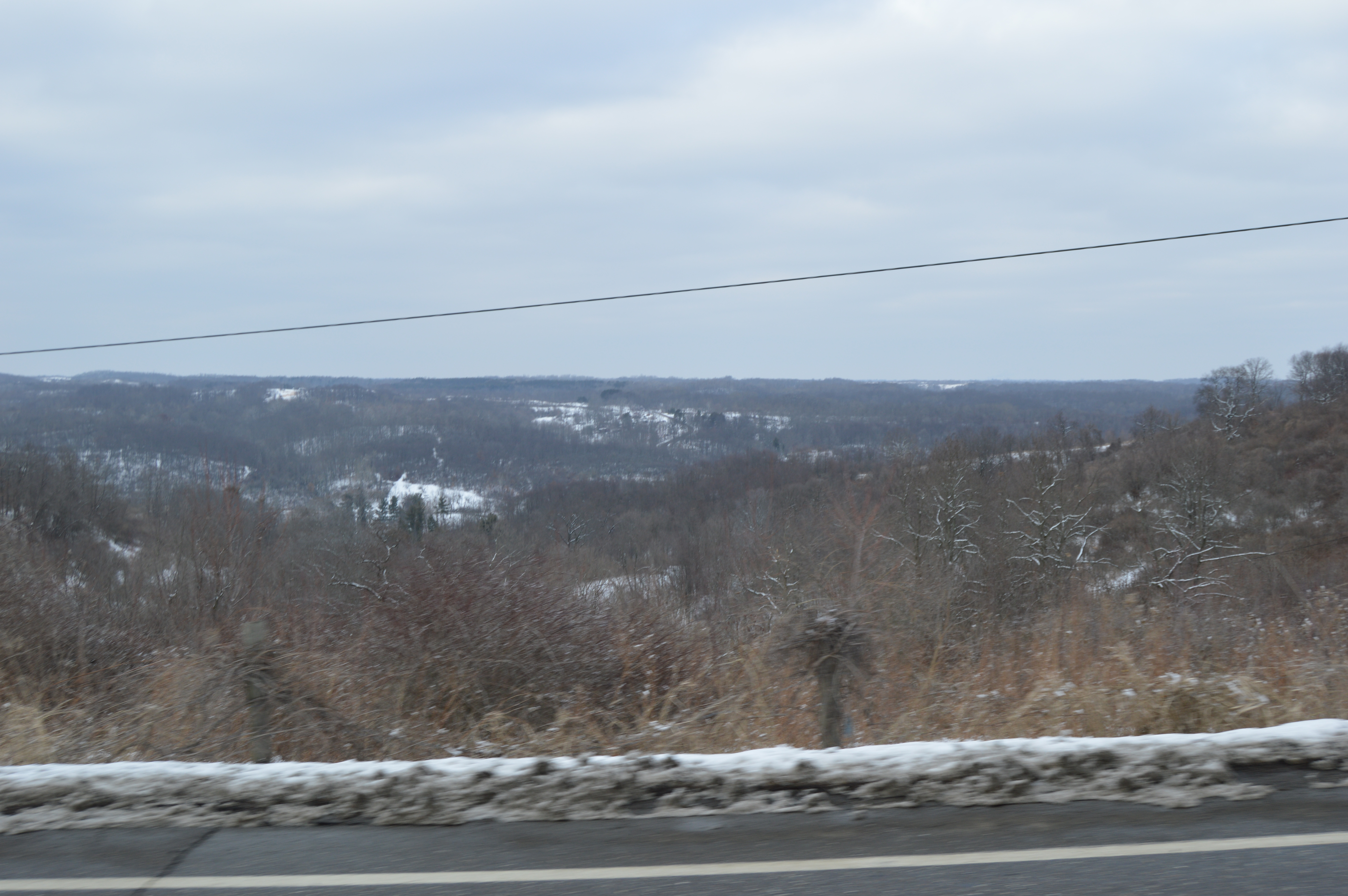 Looking north from State Route 151 at its intersection with County Road 21 in Wells Township, Jefferson County, Ohio, United States.